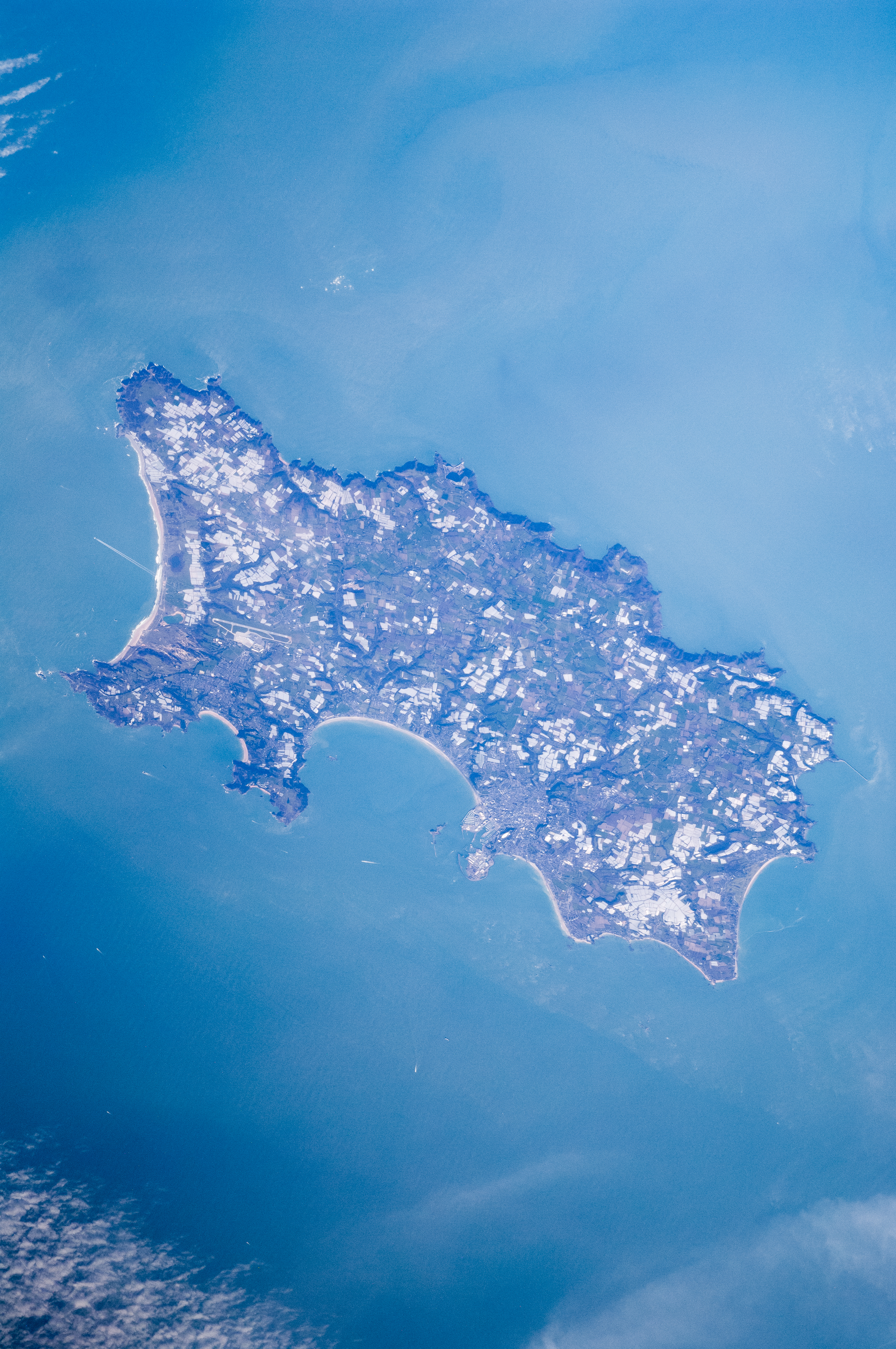 Colour adjusted photo of Jersey taken by an astronaut from the International Space Station on 12 March 2012. ISS Crew Earth Observations: ISS030-E-192840IdentificationMissionISS030 (Expedition 30)RollEFrame192840Country or Geographic NameATLANTIC OCEAN I(S).FeaturesJERSEY, SAINT HELIER, SHIP WAKES, AIRPORTCenter Point Latitude49.2° NCenter Point Longitude-2.1° ECameraCamera Tilt37°Camera Focal Length400 mmCameraNIKON D3SFilm4288 x 2848 pixel CMOS sensor, RGBG imager color filter.QualityPercentage of Cloud Cover0-10%Nadir What is Nadir?Date2012-03-12Time10:49:09Nadir Point Latitude51.7° NNadir Point Longitude-1.5° ENadir to Photo Center DirectionSouthSun Azimuth154°Spacecraft Altitude204 nautical miles (378 km)Sun Elevation Angle32°